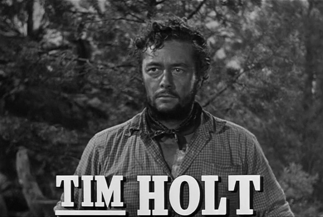 Cropped screenshot of Tim Holt from the trailer for the film The Treasure of the Sierra Madre.